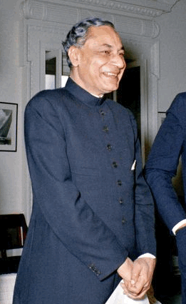 President John F. Kennedy meets with Ambassador to the United States from India, Braj Kumar Nehru, in the Oval Office